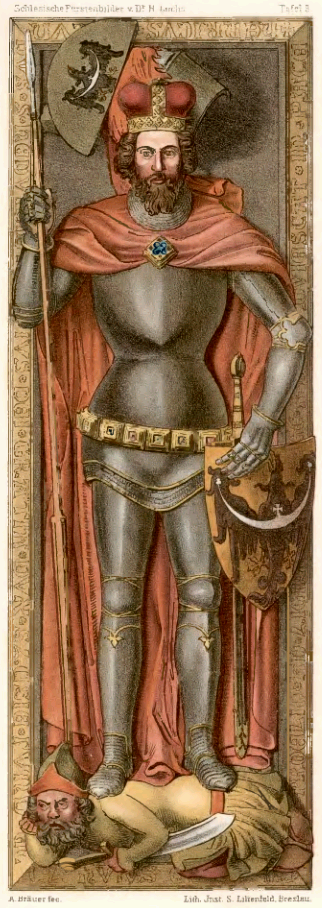 Henry II duke of Silesia † 1241